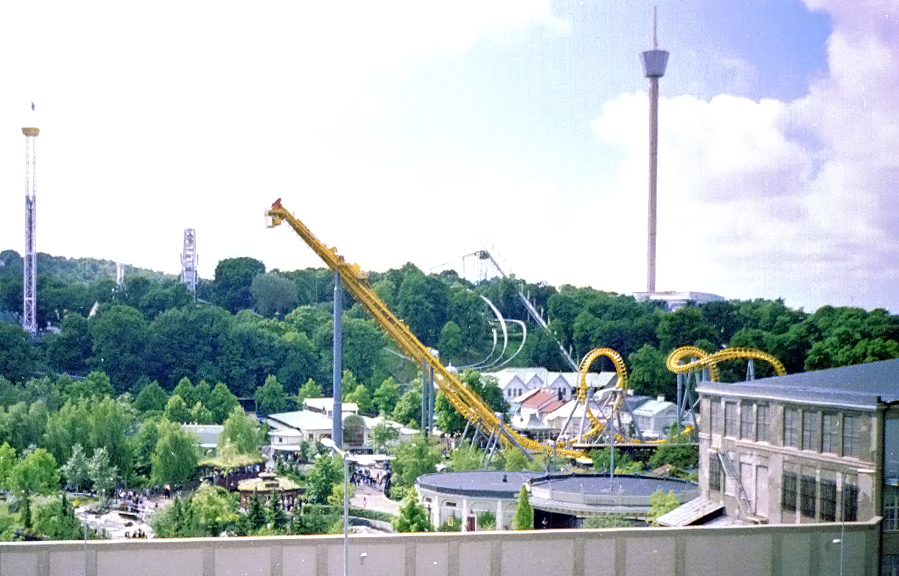 The yellow roller coster Hangover at Liseberg in Gothenburg, Sweden.